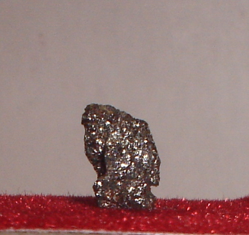 Samarskite(Yb). Dimensions: 1 cm x 0.7 cm x 0.4 cm From "Patsy" Pegmatite, South Platte Pegmatite District, Jefferson County, Colorado, U.S.A. Raúl Jorge Tauber Larry´s collection.